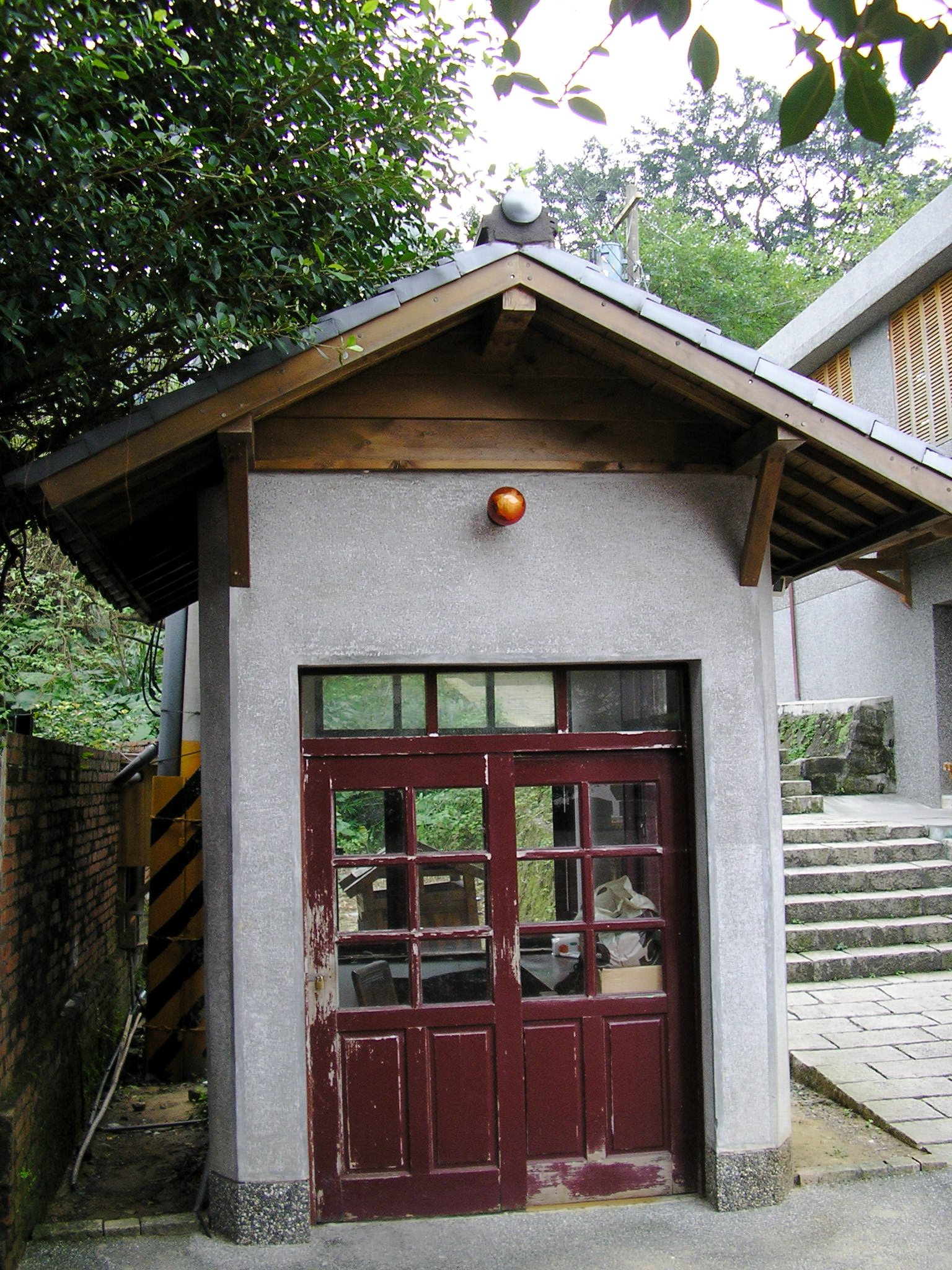 A restored Japanese colonial era koban (police box) in the Chinkuashih Gold Ecological Park in Taipei County, Taiwan.